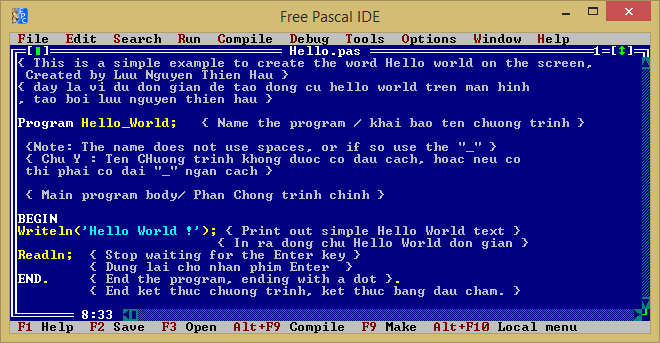 Free Pascal IDE 3.0.4 in Windows 8.1. Tiếng Việt (Vietnamese): Free Pascal IDE 3.0.4 Trên Windows 8.1.